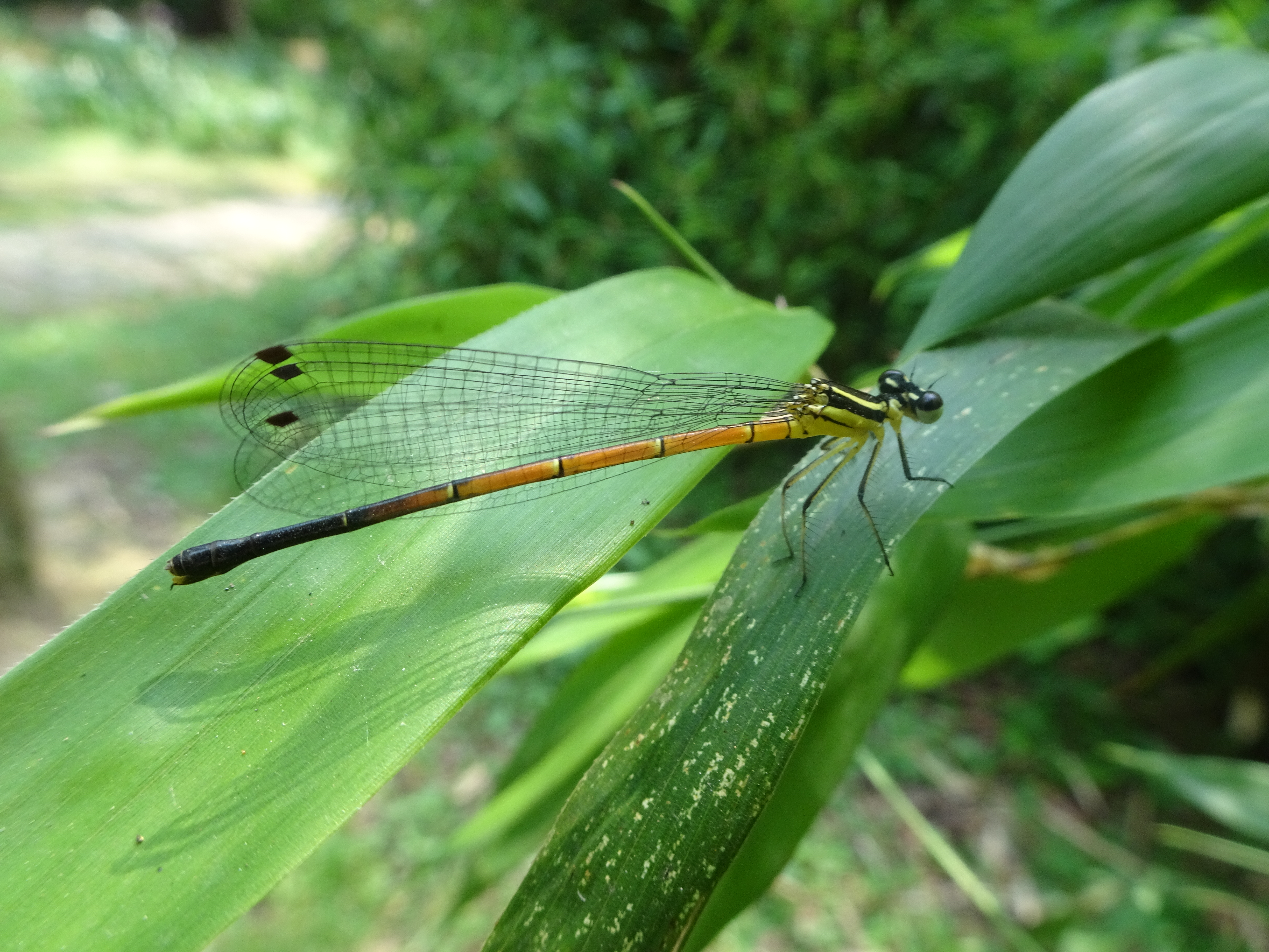 Calicnemia nipalica taken at Godavari, Lalitpur